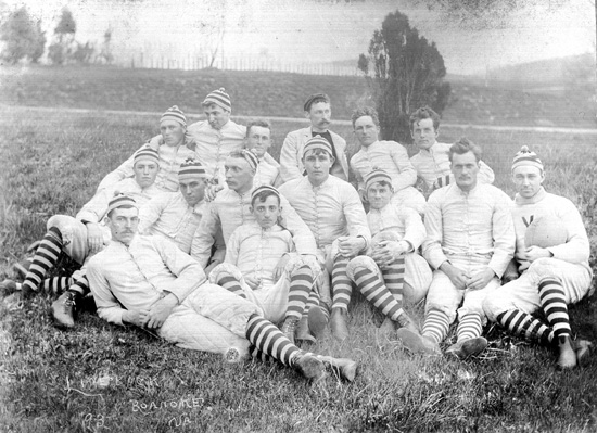 V.A.M.C. Football Team, 1892, coached by Prof. E.A. Smyth, Jr. (Virginia Tech was known as "Virginia Agricultural and Mechanical College" at the time.)